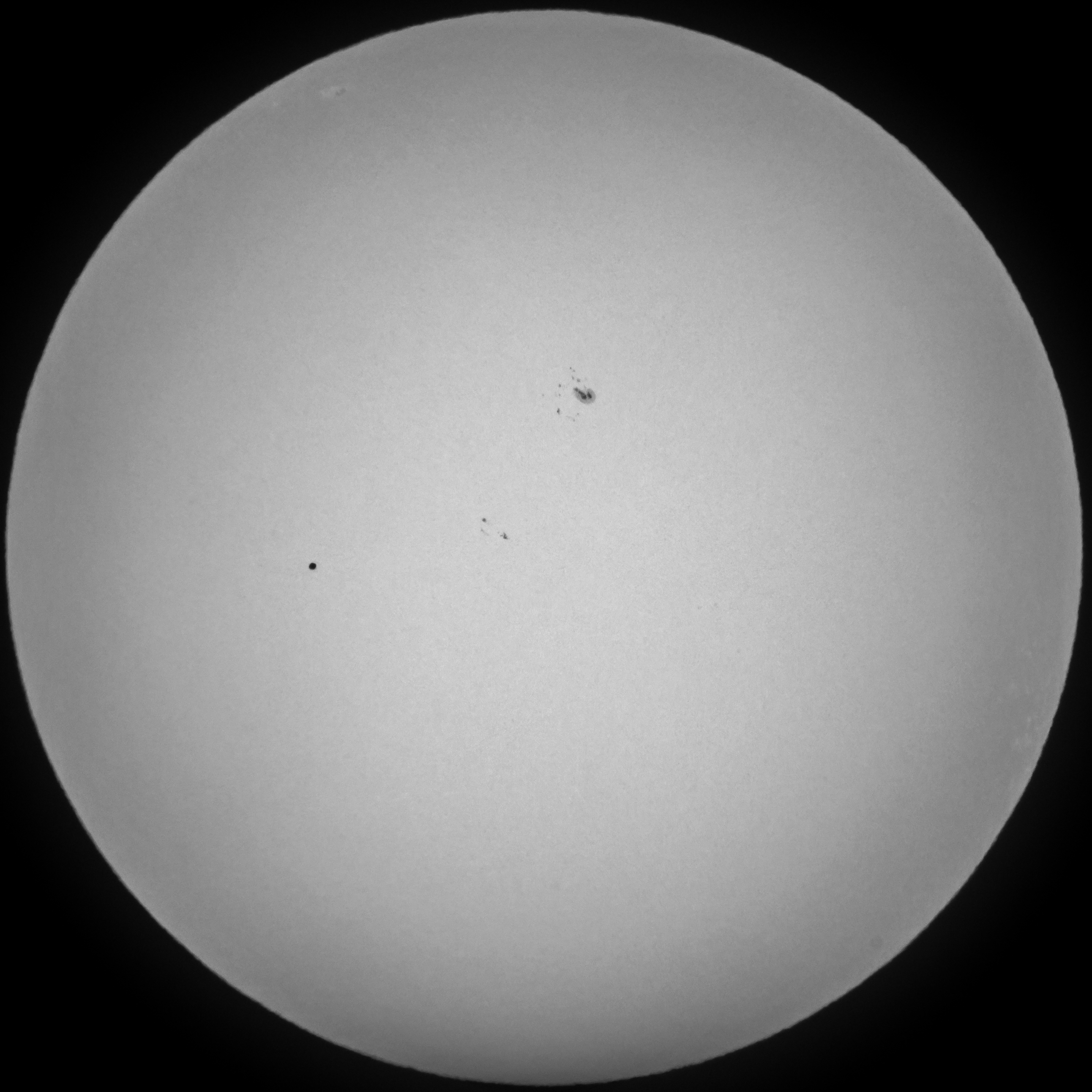 Transit of Mercury, 2016-05-09 13:52 UTC (Mercury in front of the sun). Photographed using a Telescope ED80 600mm, Baader-AstroSolar filter, Baader Solar Continuum filter, Baader Hyperion 17mm